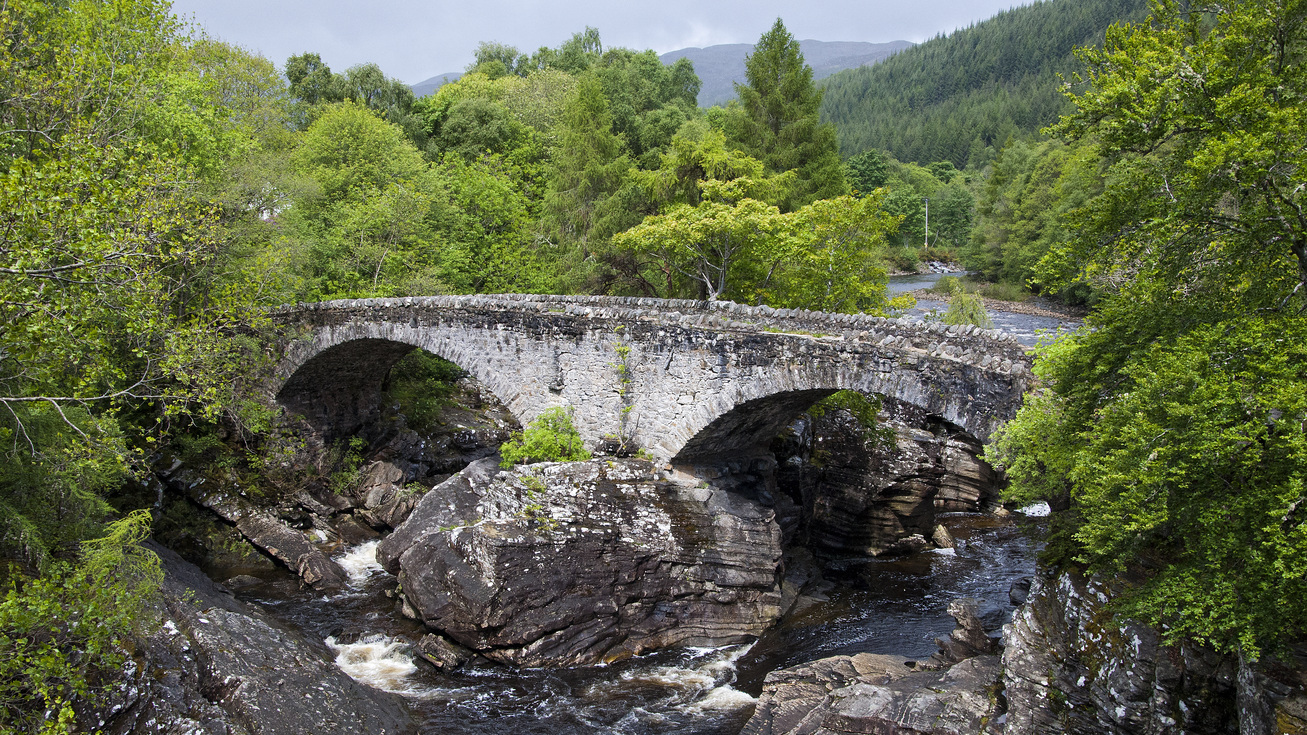 Invermoriston Old Bridge, Scotland, built in the middle of the 18th century